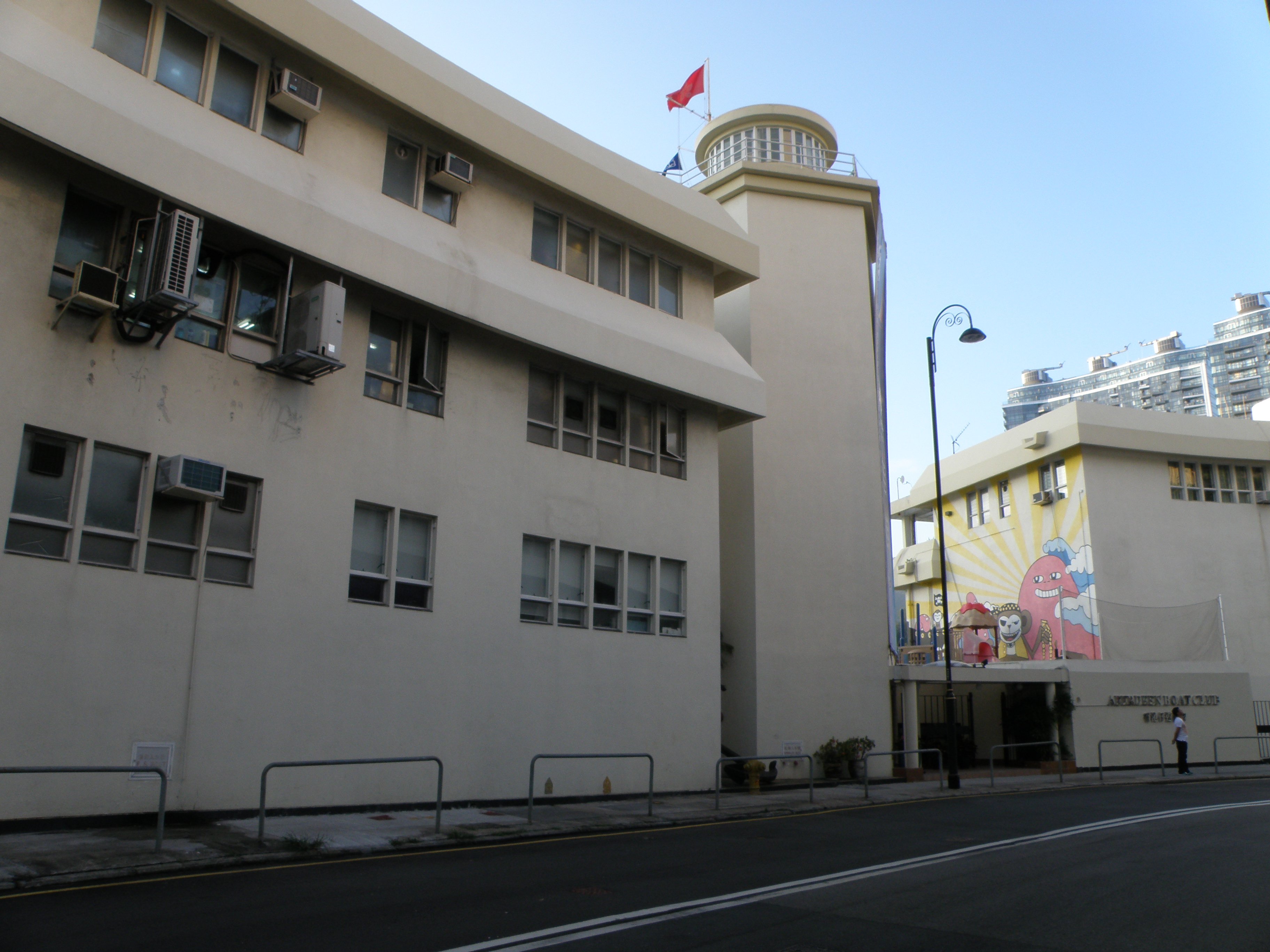 Aberdeen Boat Club in Sham Wan, Hong Kong.